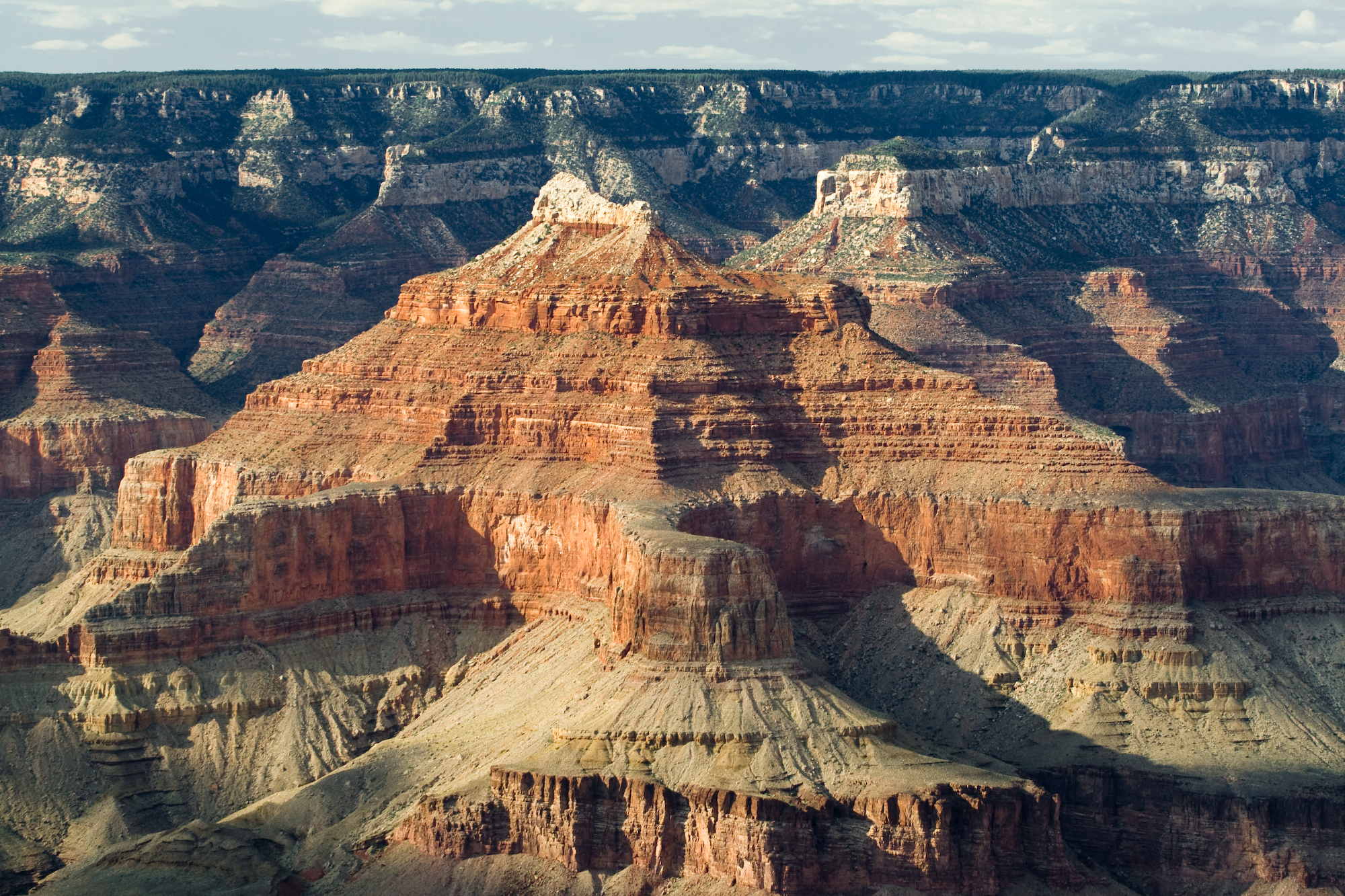 (original description)--Grand Canyon, Arizona. Nearly two billion years of the Earth's history have been exposed as the Colorado River and its tributaries cut their channels through layer after layer of rock while the Colorado Plateau was uplifted. Arizona, USA. (view approx. due-north)--From Dana Butte region, on Tonto Trail-(on the Tonto Platform), southside of Granite Gorge, Colorado River. The Isis Temple prominence, 7,012 feet (2,137 m), is on an uplifted, faulted-block, with Sumner Butte (unseen) to right, and a 3rd "prominence", also part of the block, at the southwest of Bright Angel Canyon-(creek)-(Bright Angel Fault). The northeast flank of the block is down Phantom Creek-(canyon, to Bright Angel Canyon)-(the Grandview Fault). The geology units beyond, are consequently offset, (lower by 200-250? ft). The landmark point, to the right of ISIS peak, is the end of The Colonnade, 7,296 feet (2,224 m), on the next canyon southeast from Tiyo Point, 7,762 feet (2,366 m), of the southwest Kaibab Plateau, (seen in the background); (the viewpoint looks slightly uphill from Dana Point). Tiyo Point is 3-mi from Isis Temple (peak), and The Colonnade, (though appears as a twin peak), is 1.5 mi from Isis. Isis Temple is topped by the lowest (buff-white unit), Coconino Sandstone, then a short slope of Hermit Shale, and the Supai Group "redbeds". The cliffs below the 'redbeds' are Redwall Limestone; then upon the slopes of Muav Limestone & Bright Angel Shale (No Tapeats Sandstone). Instead the base of Isis Temple sits on a 'mountain island' of Shinumo Quartzite of the Ukar Group, part of the Grand Canyon basement rock geology. (Tapeats Sandstone is in all the landforms surrounding the uplifted block.)